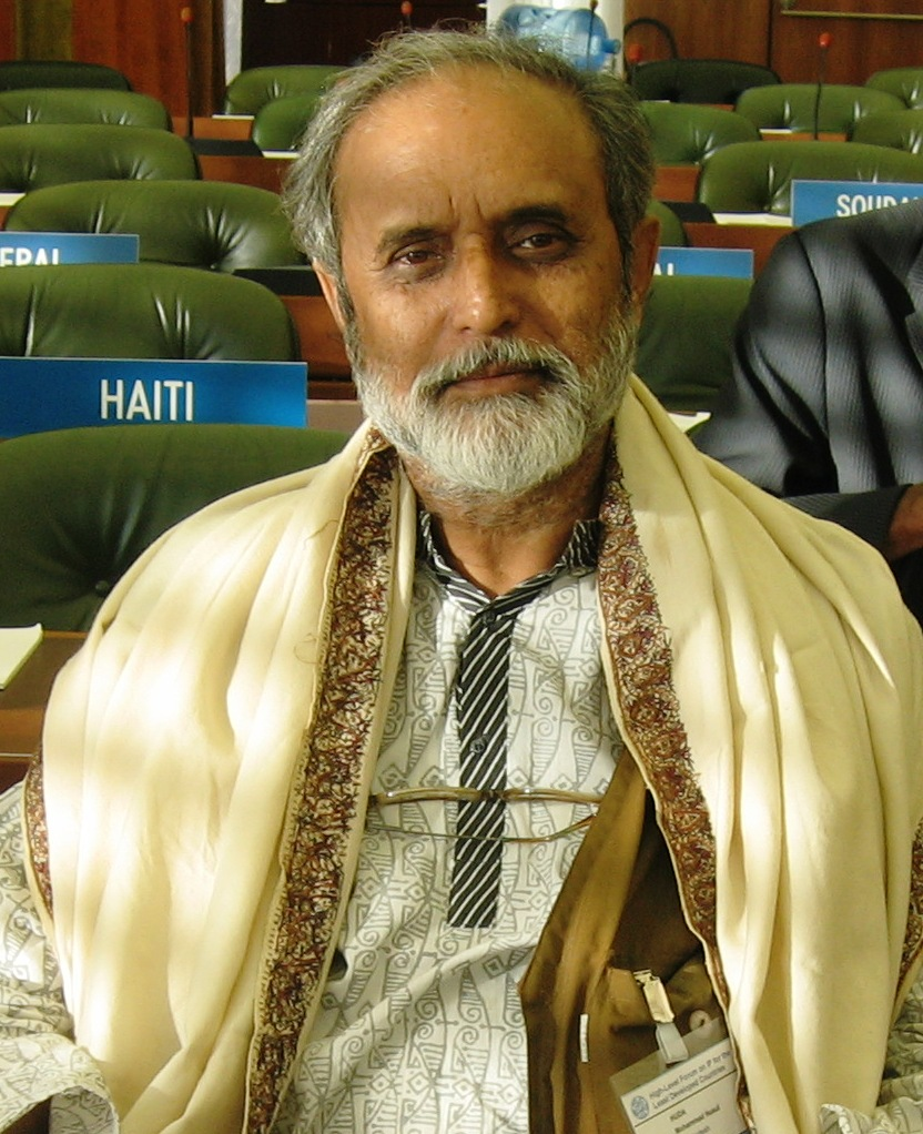 This photograph of poet-author Mohammad Nurul Huda from Bangladesh was taken by Faizul Latif Chowdhury in Geneva, Switzerland, on 12 December 2007 at the WIPO.